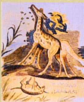 Detail of Nile mosaic from Palestrina (section 5). Copy of Cassiano dal Pozzo (around 1630). The Royal Collection 1994, Windsor castle.